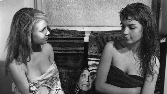 Publicity photograph for the movie Vatsa sisään, rinta ulos! with Ritva Vepsä (1941–2016), Helge Herala (1922–2010), and Lena von Martens (1940–2015).